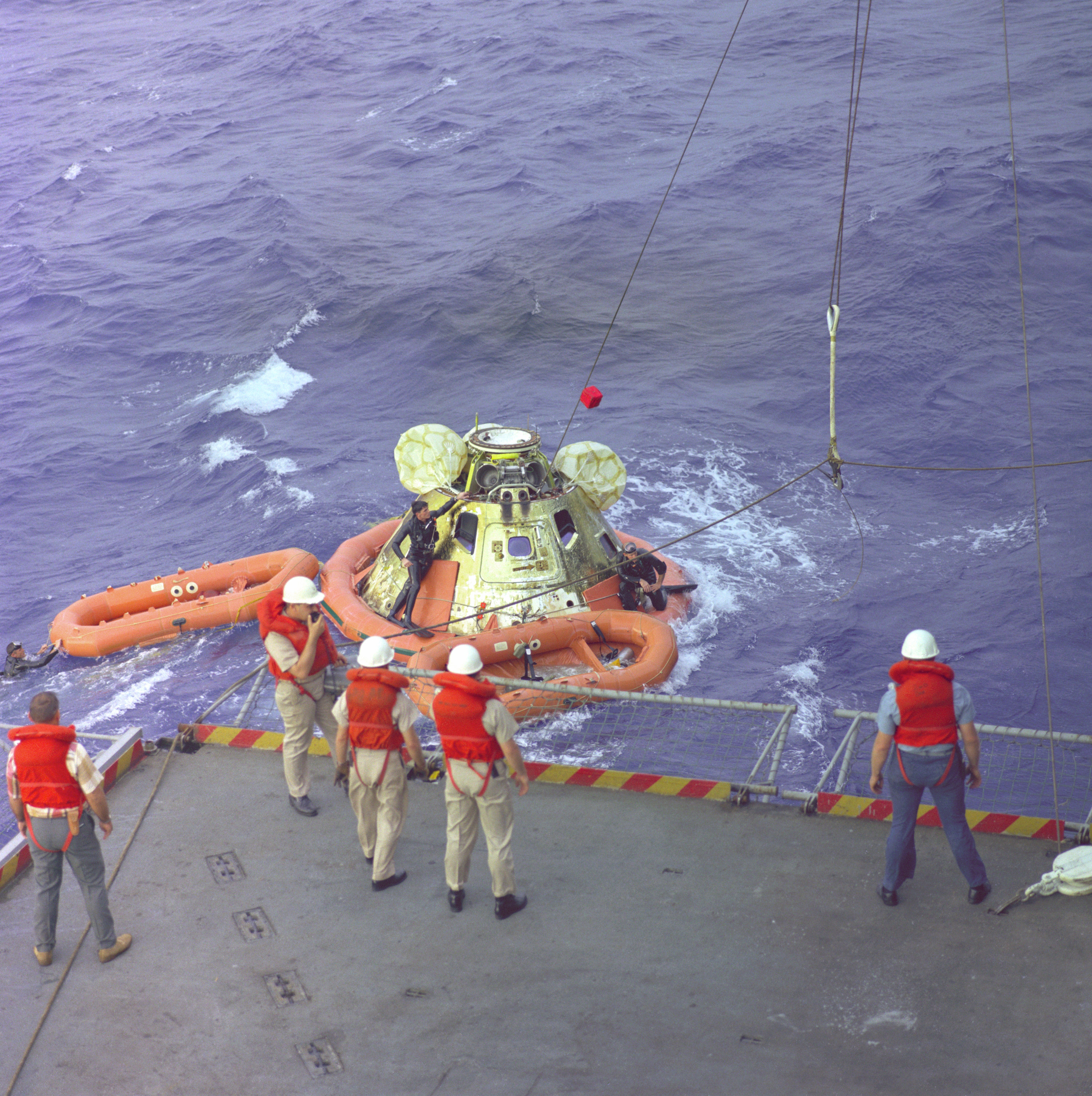 A team of U.S. Navy underwater demolition swimmers prepares the Apollo 8 command module for being hoisted aboard the carrier U.S.S. Yorktown, prime recovery vessel for the initial manned lunar orbital mission. The crew members - astronauts Frank Borman, James A. Lovell, Jr., and William A. Anders - had already egressed the spacecraft and were aboard the recovery ship at the time of this photo.